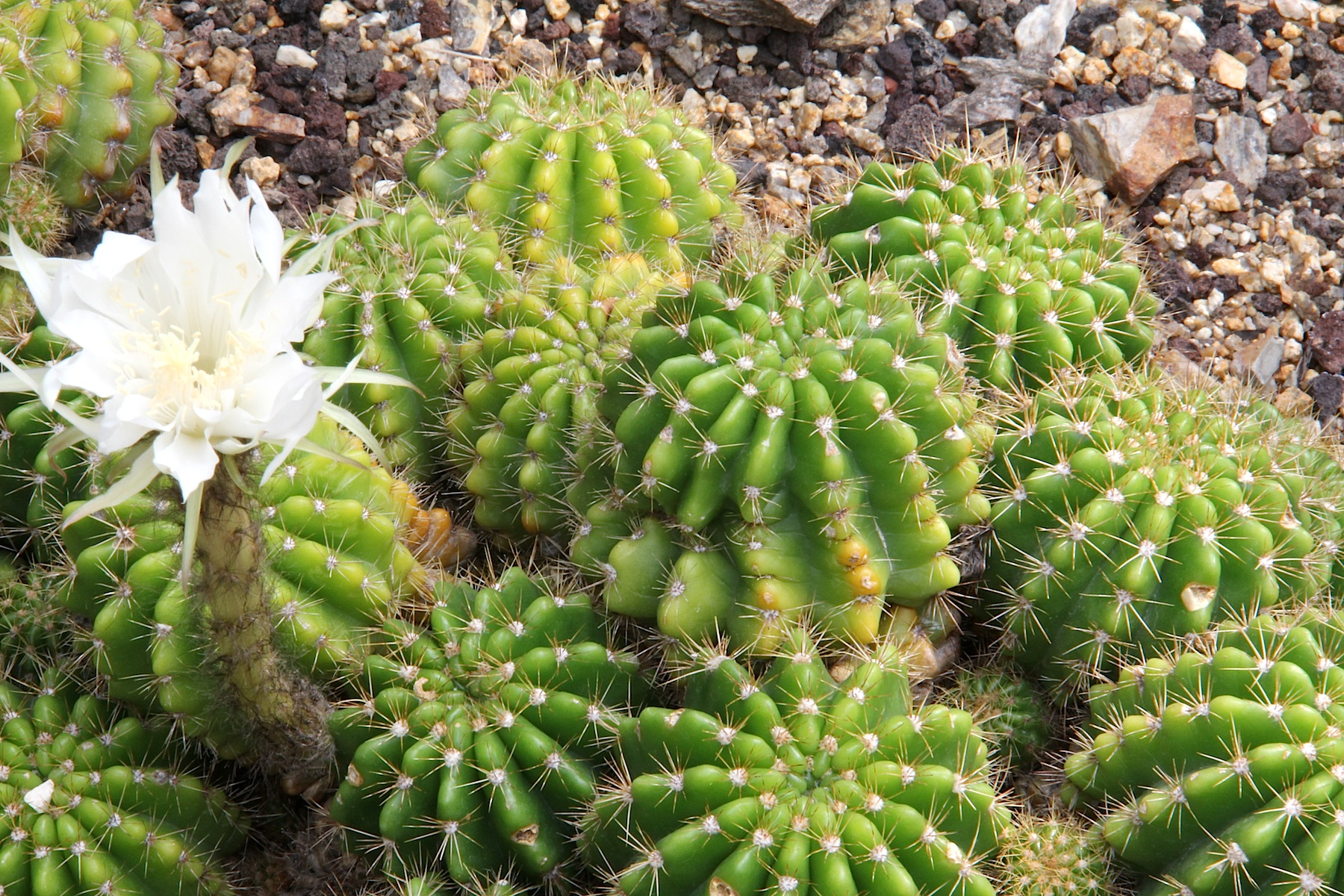 Echinopsis calochlora